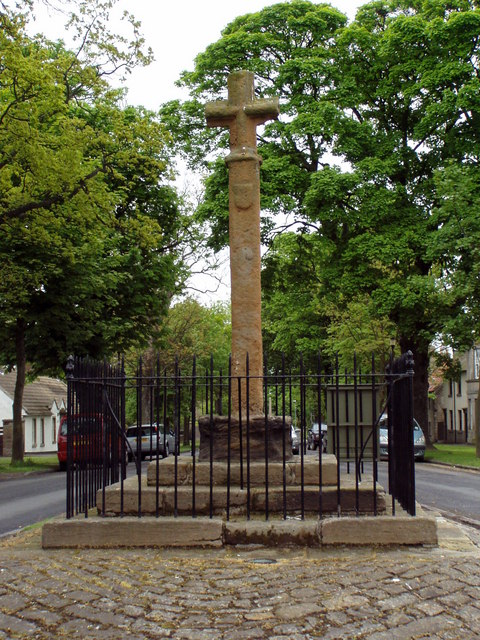 Ormiston Cross Ancient cross in middle of road through village